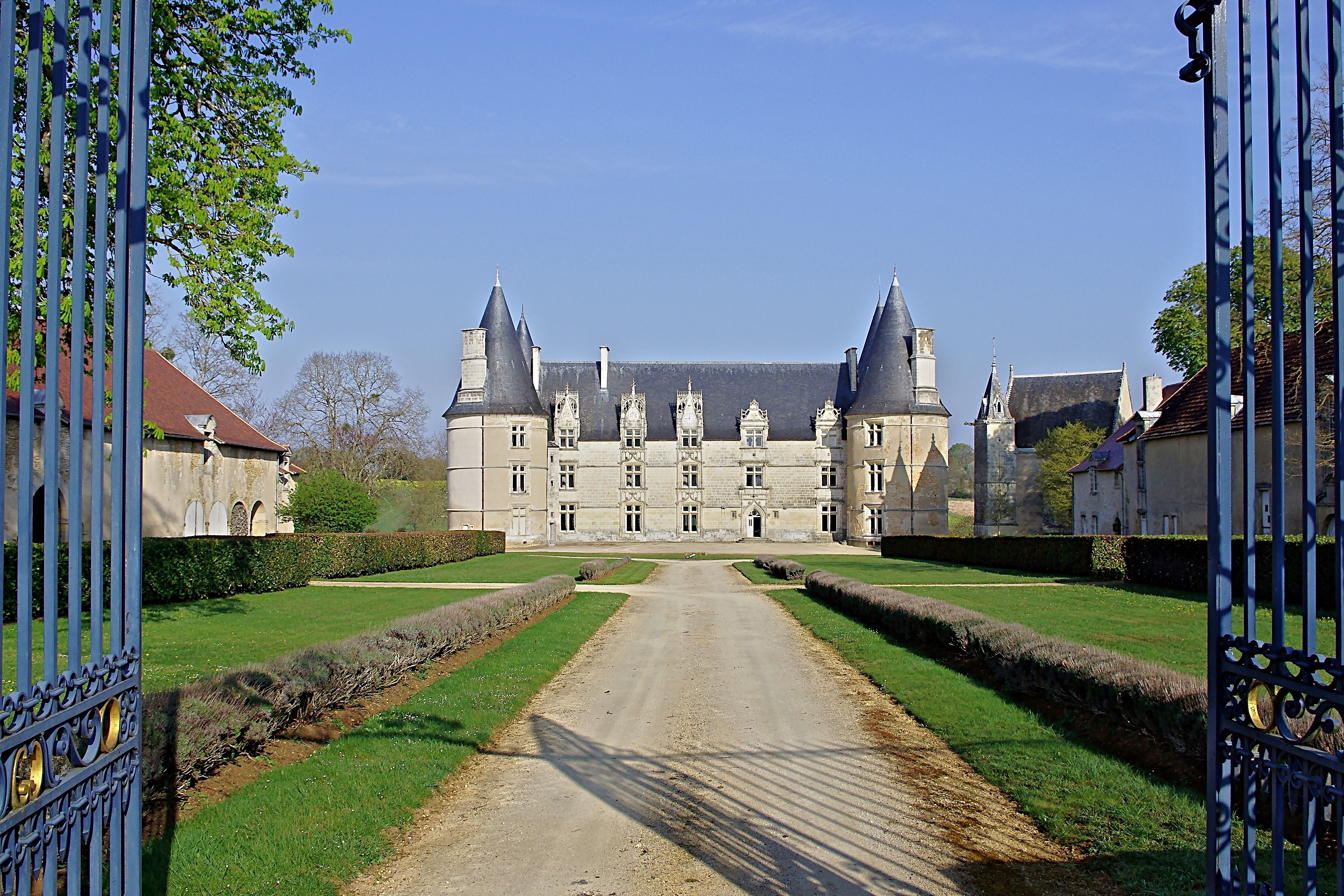 Castle of La Roche-Gençay (XVIth century), which houses the Museum of the Order of Malta. Magné, Vienne, France. .